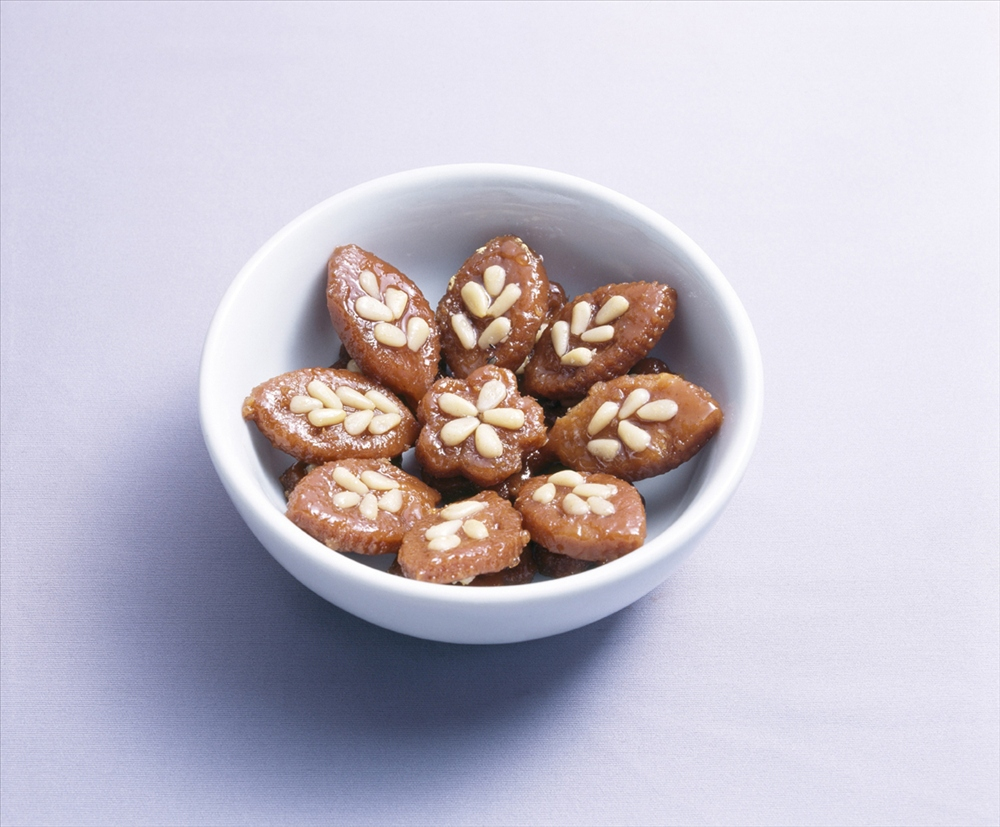 Deep-fried cookies made with flour, sesame oil, Korean liquor, and honey.